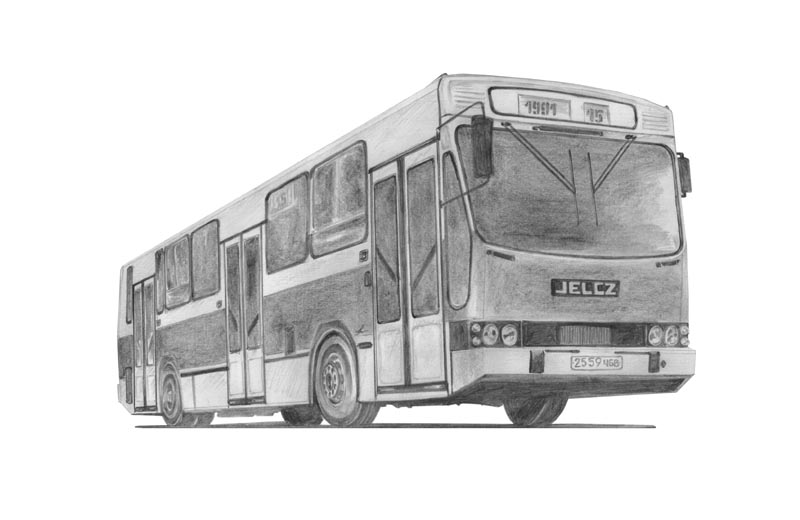 Jelcz 120M bus built in Poland.